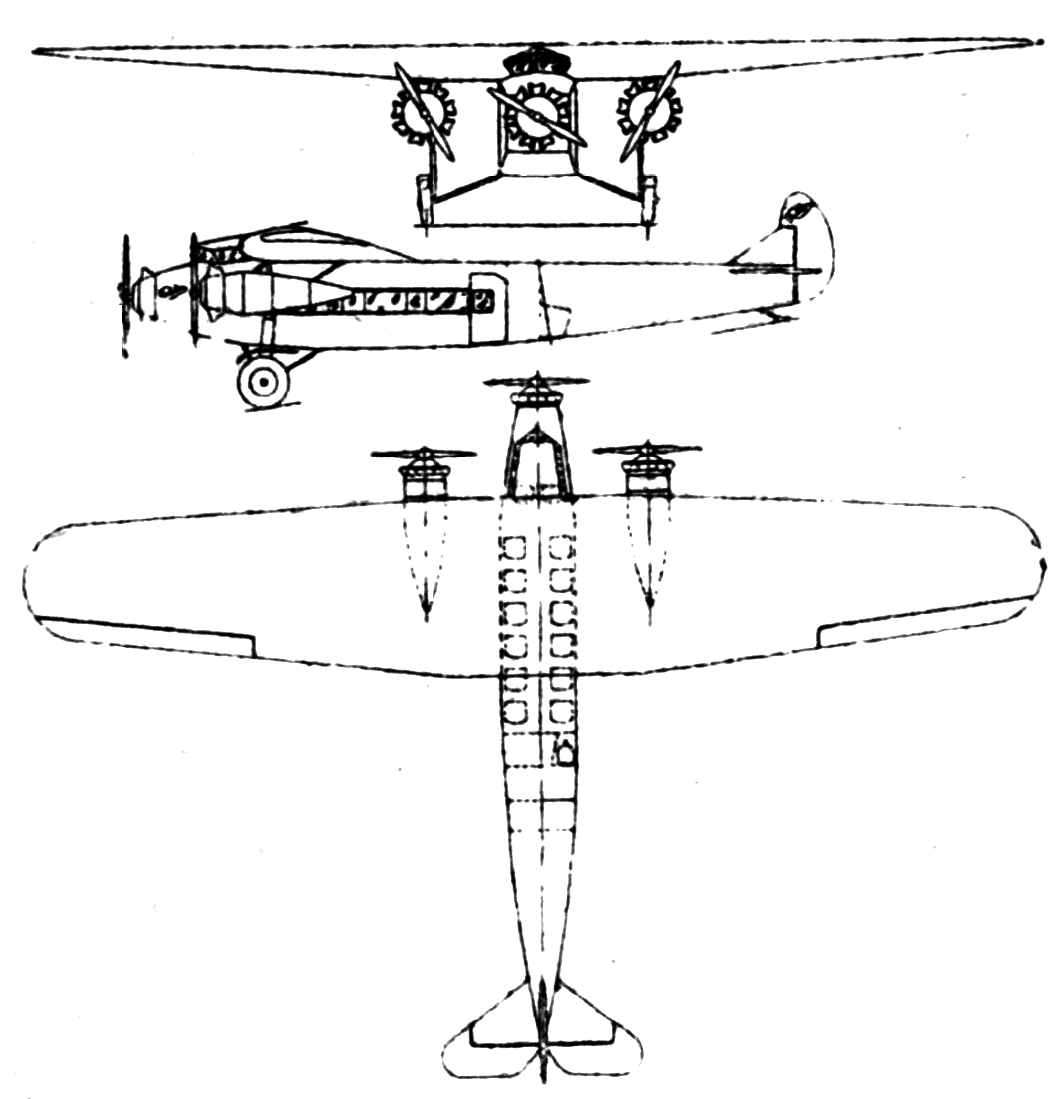 Fokker F-10 3-view drawing from Le Document aéronautique November,1928